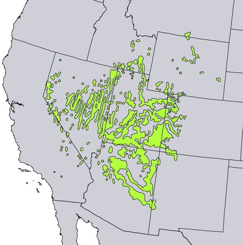 Range map of Juniperus osteosperma